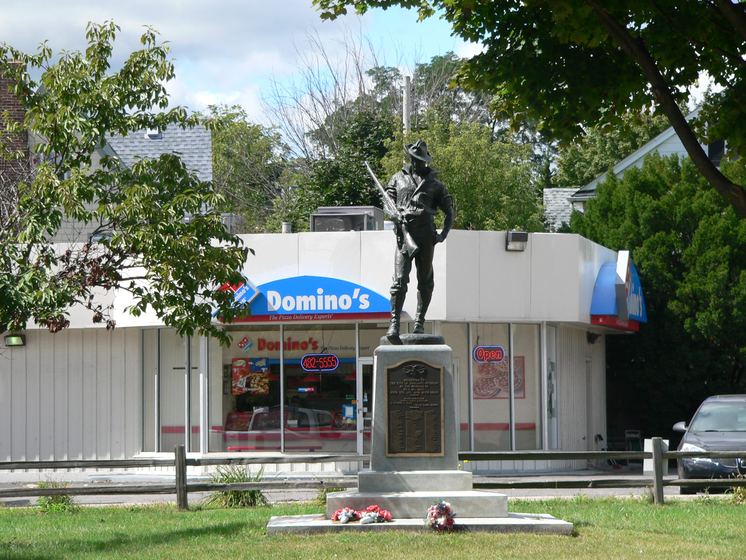 Ypsilanti, Michigan's war memorial for the Spanish-American war, in front of Ypsilanti's Domino's Pizza restaurant.